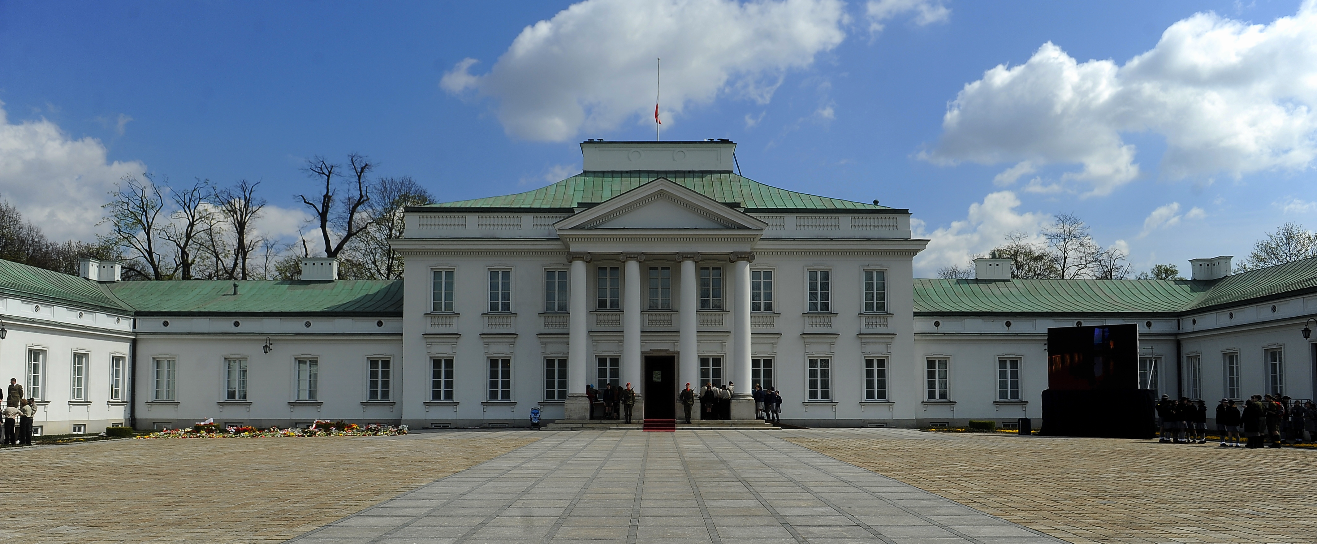 Belweder in Warsaw